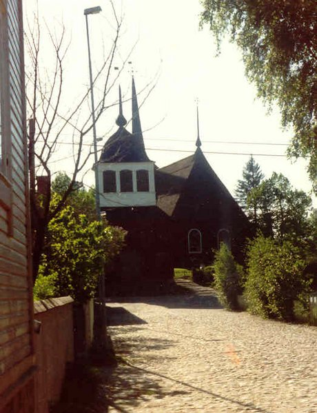 Ulrika Eleonora Church, Kristinestad, Finland